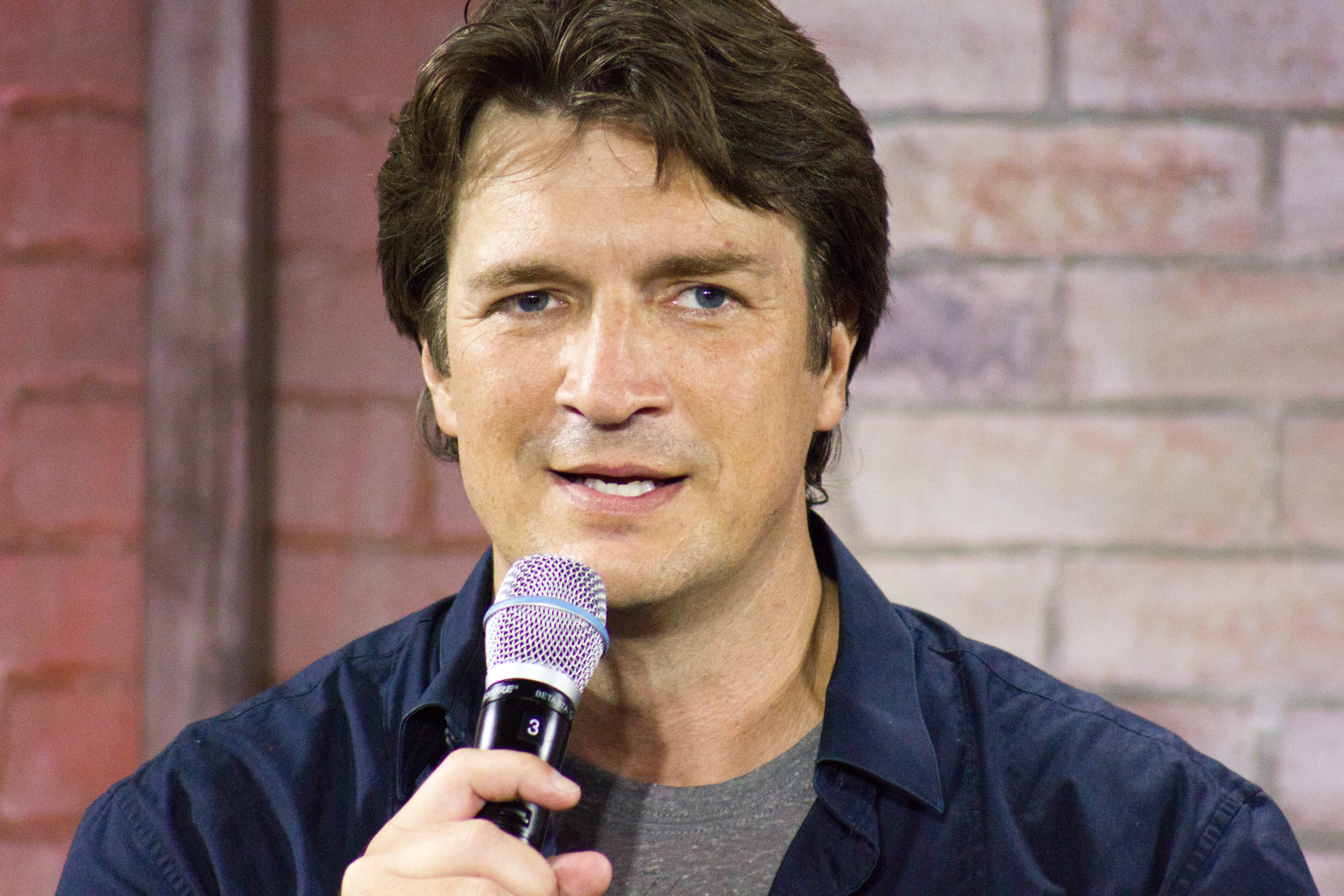 Nathan Fillion @ Nerd HQ